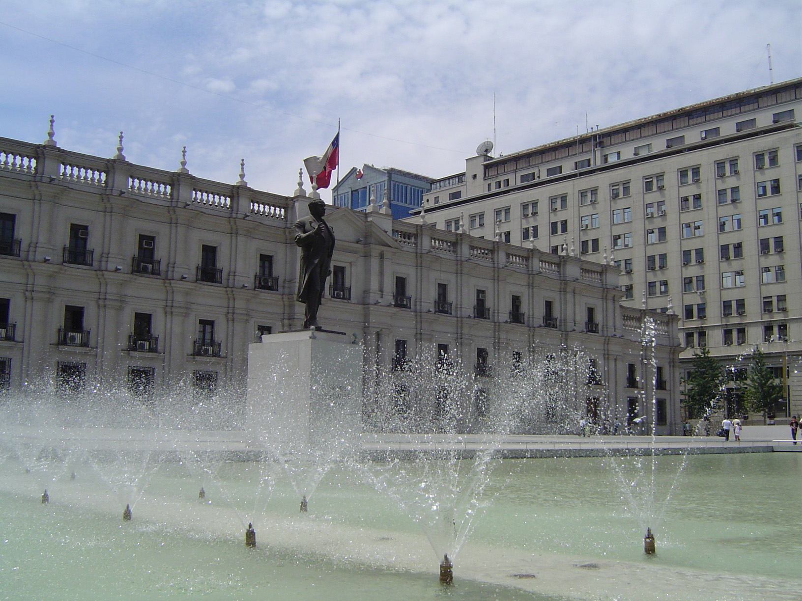 Plaza de la Ciudadanía (Citizenry Square), with fountains and a statue of former president Alessandri.